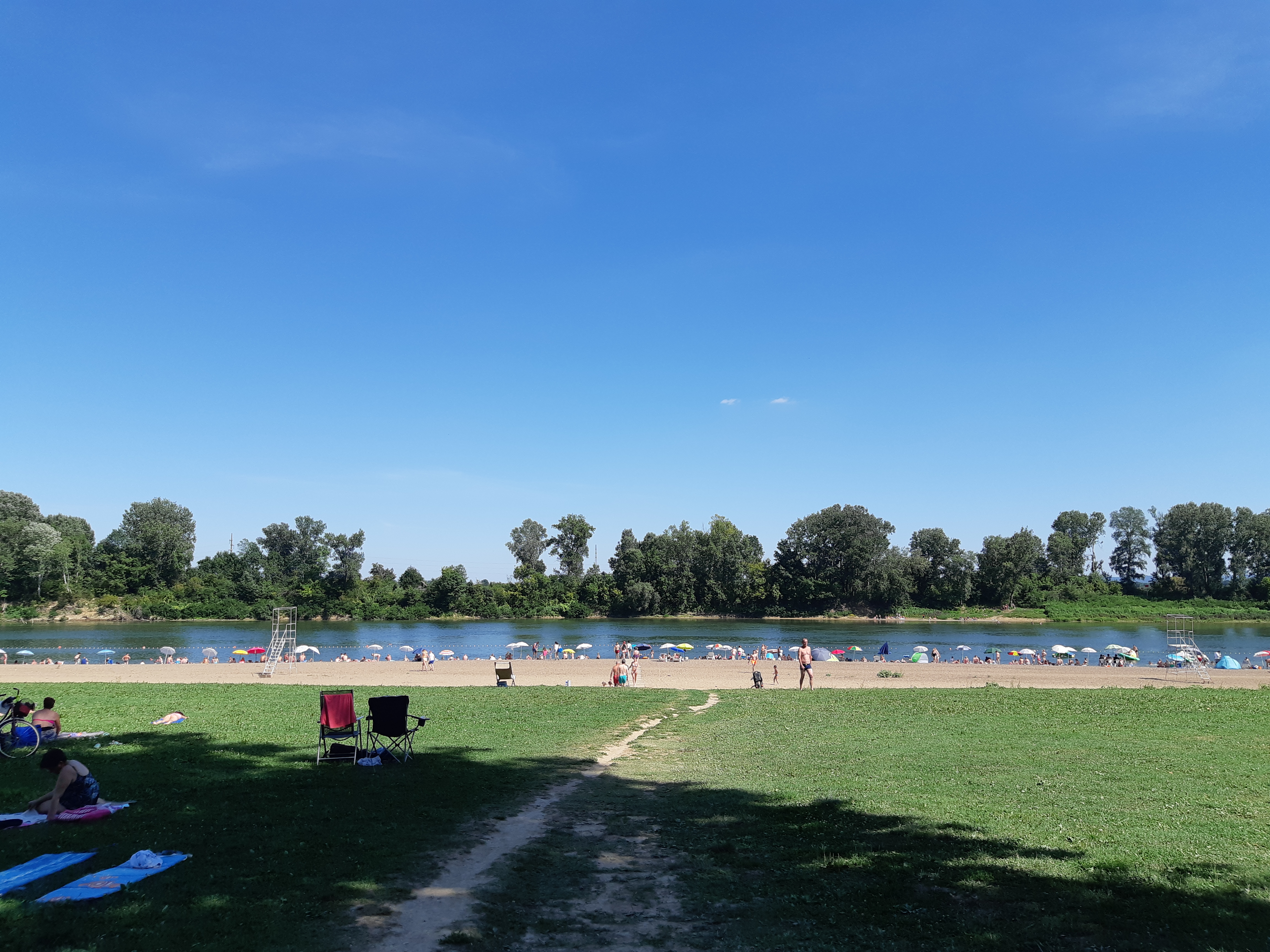 Sports and recreation center Poloj